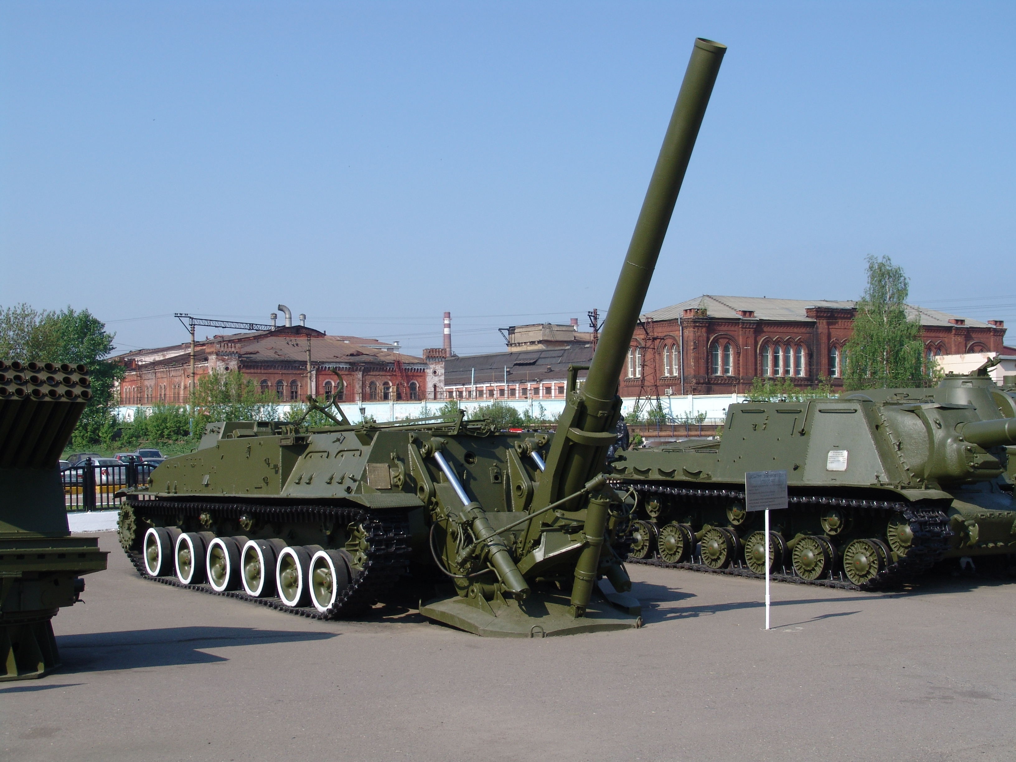 240-mm self-propelled mortar 2B8 (SAC-2S4)